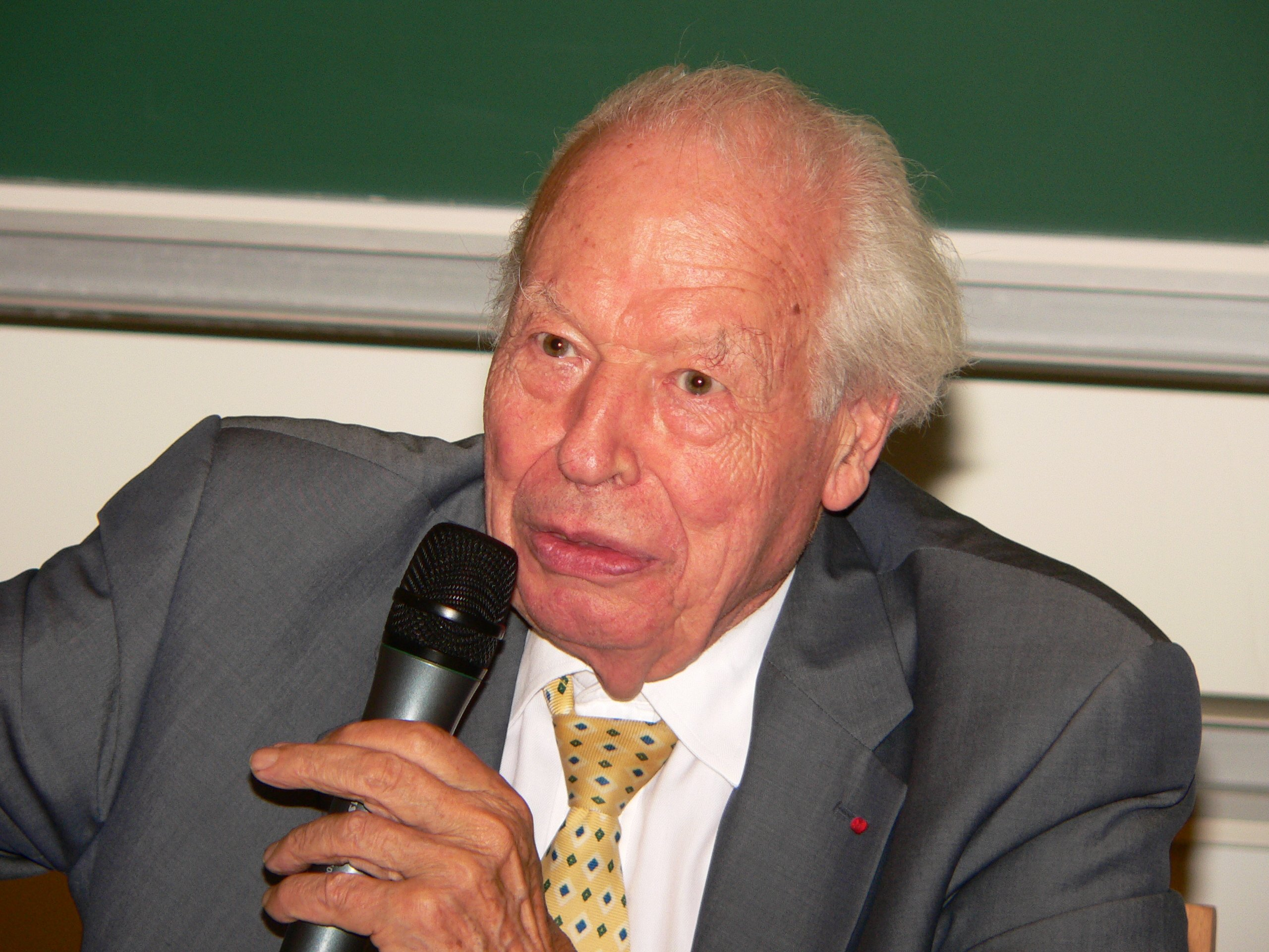 Pierre Laffitte, French senator, during his speech at the ceremony where Benoît Mandelbrot was made an officer of the Legion of Honour on September 11, 2006, at the École polytechnique.